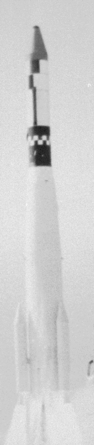 Launch of the Thor SLV-2A Agena D rocket with Corona 106 (KH-4A 1030) satellite.